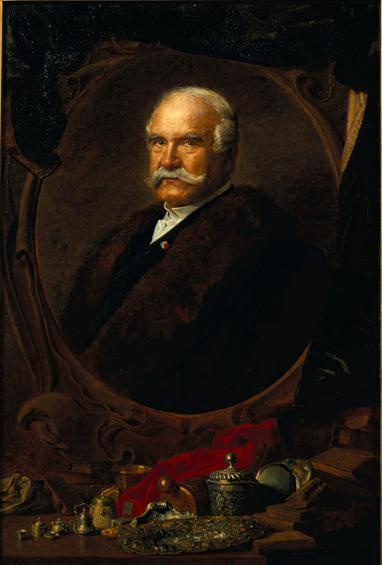 Luís Augusto Ferreira de Almeida (1817-1900), the first and only Viscount and later Count of Carvalhido.